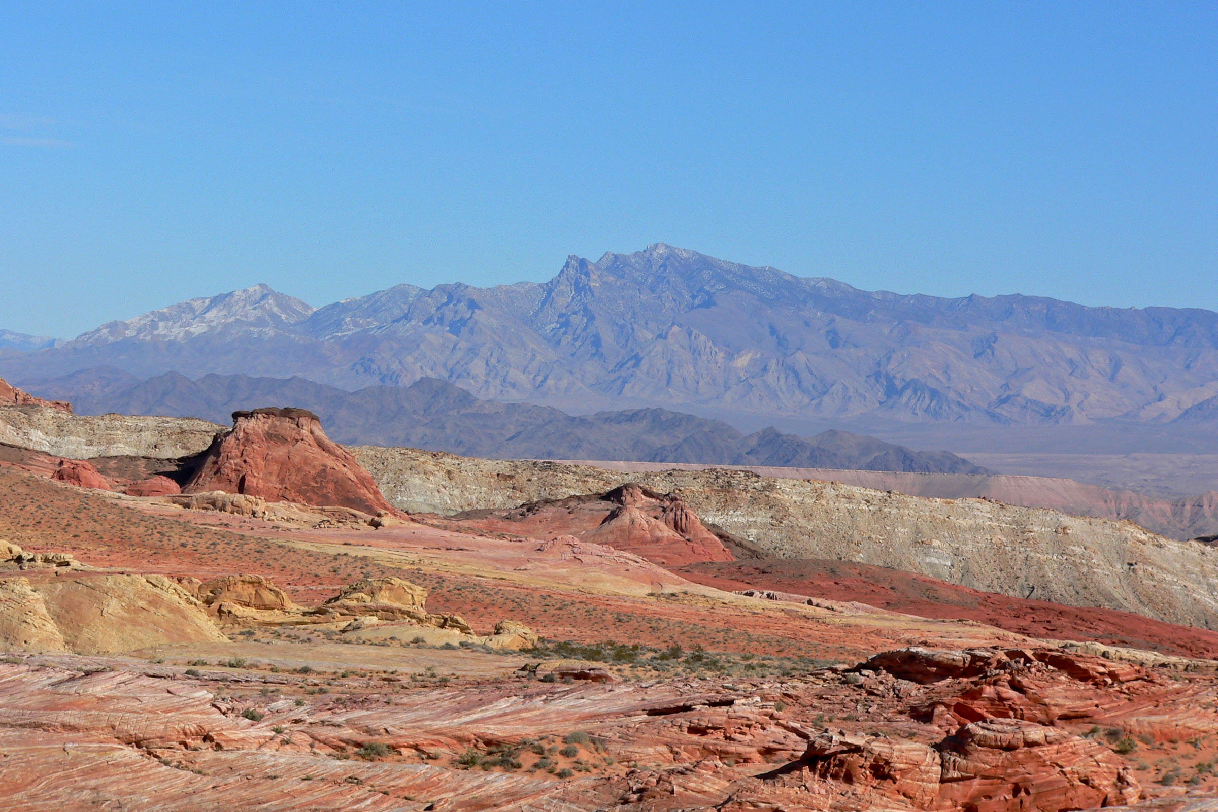 Virgin Mountains — seen from Valley of Fire, in the Mojave Desert, Clark County, southern Nevada.